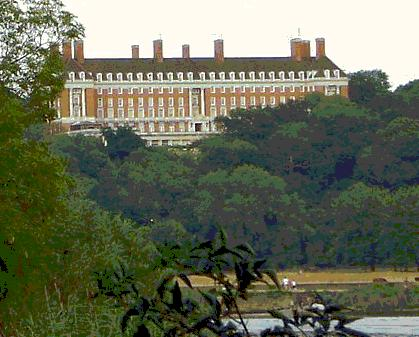 Royal Star and Garter Home, Richmond, viewed from River Thames.